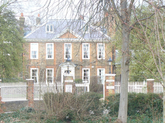 Douglas House One of many sumptuous Georgian mansions in Petersham, a select area south of Richmond.